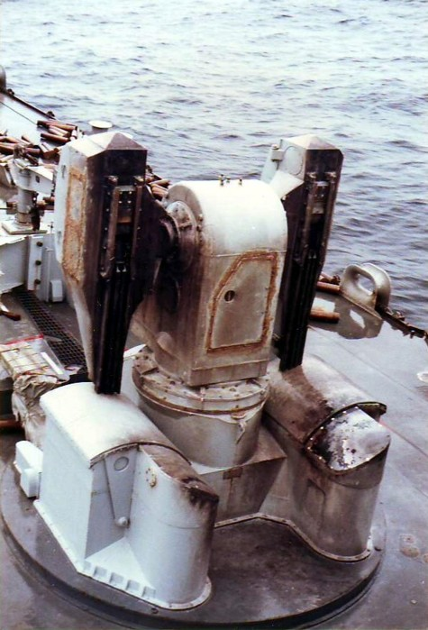 Scorched Sea Dart Launcher on HMS Cardiff (D108). Photograph was taken the morning after this very launcher shot down a friendly helicopter in an accident, during the Falklands War.